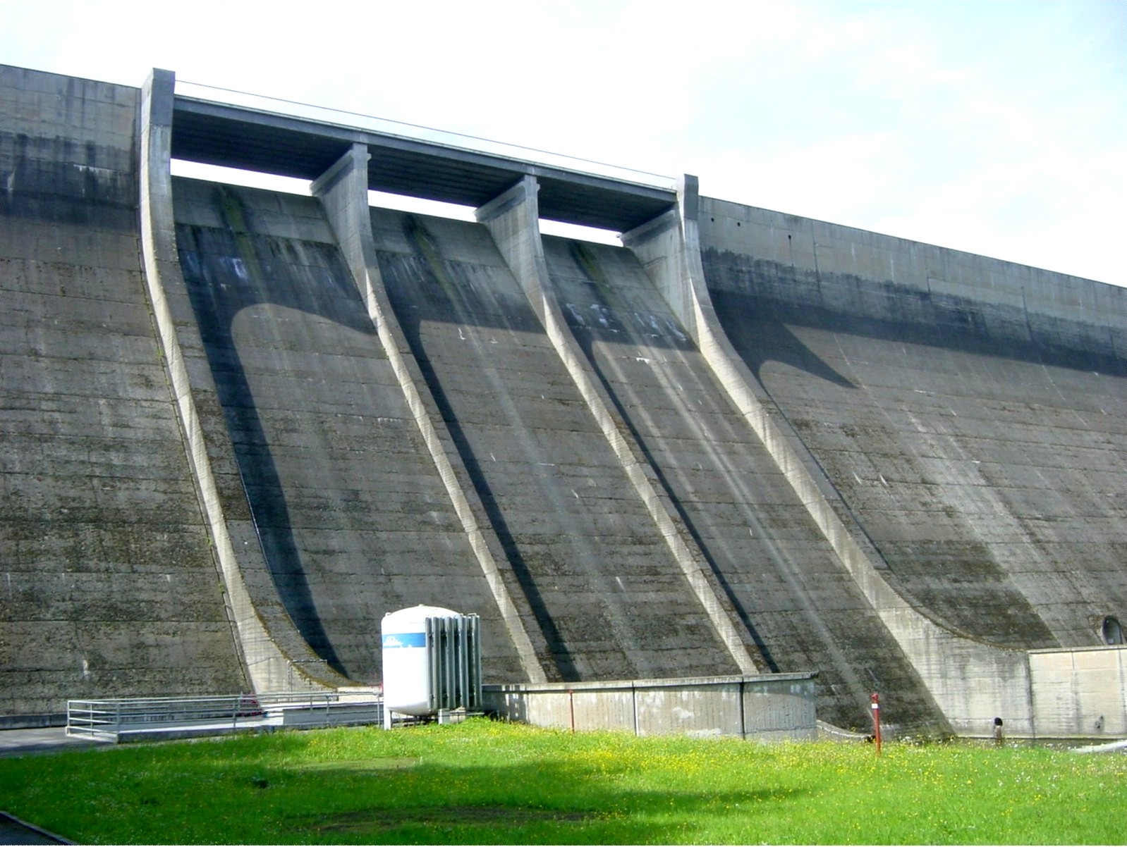 Dröda dam, Saxony, Germany